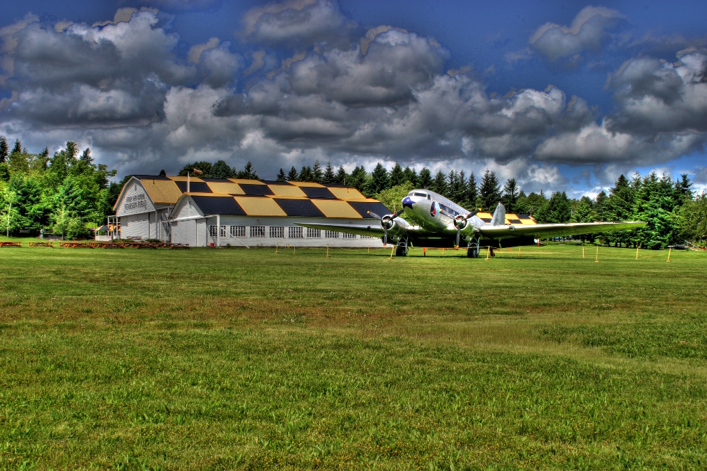 Pearson Field, in Vancouver Wa.